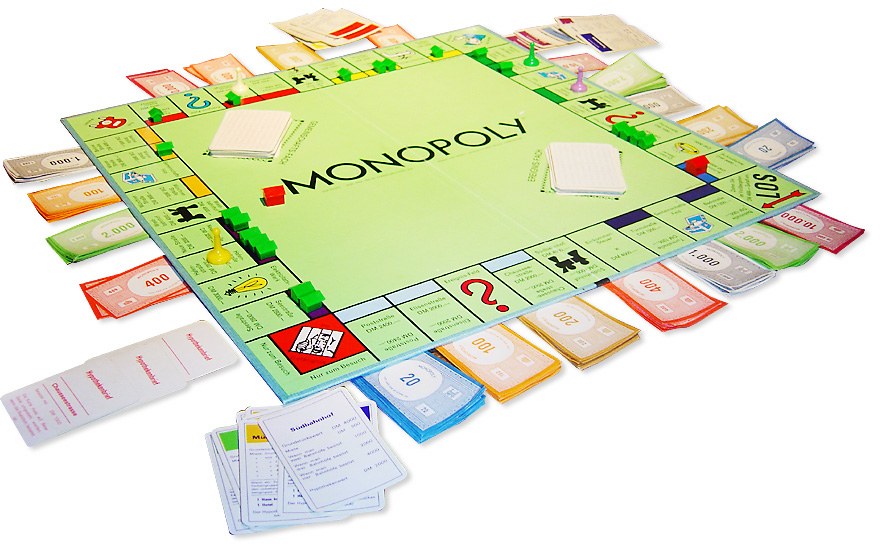 A German Monopoly board in the middle of a game. Taken from German Wikipedia Bild:Monopoly99_gr_vers.jpg by Benutzer:Horst Frank the 13:23, 7. Dez 2003 (CET).